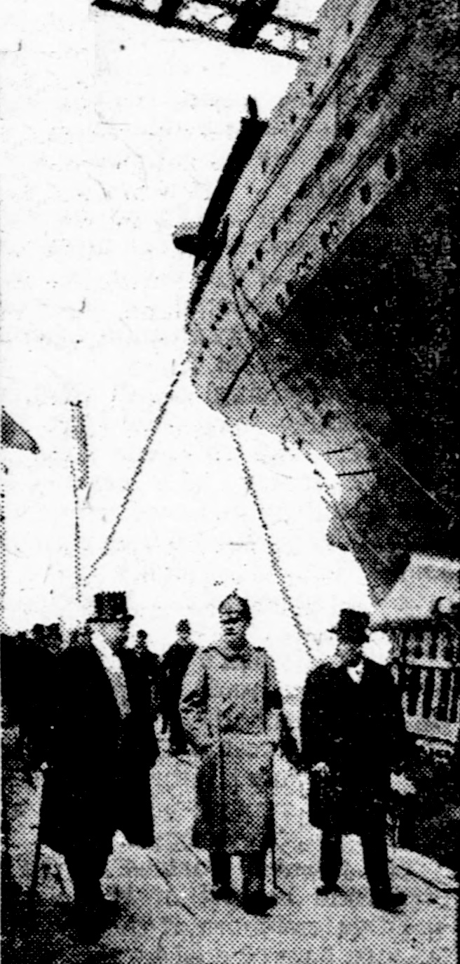 Original caption: The "Vaterland" leaving the ways at Hamburg, Germany. On the right are Emperor William and Prince Rupprecht on the way to perform the christening ceremonies.